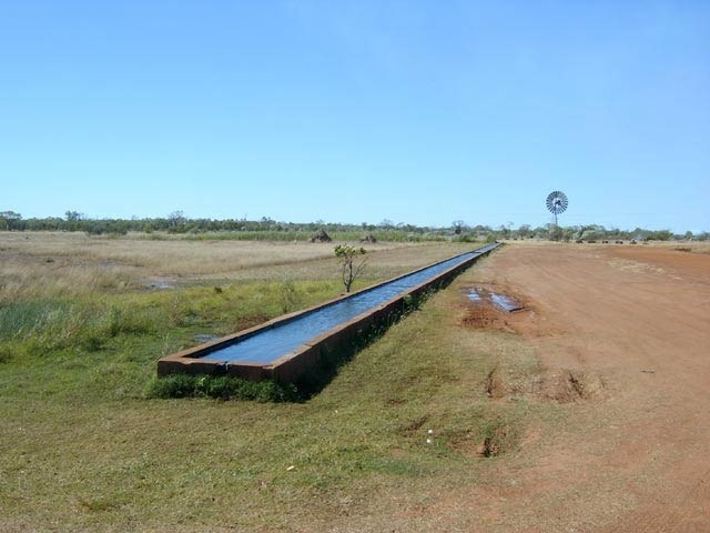 A cattle trough and windmill on a Travelling Stock Route, Outback, Australia.